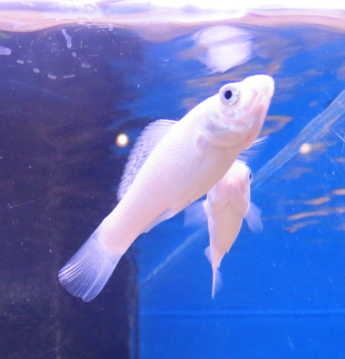 A specie of tropical aquarium fish from Central America.